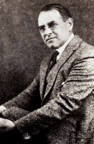 Cinematographer Alvin Wyckoff, on page 73 of the January 8, 1921 Exhibitors Herald.